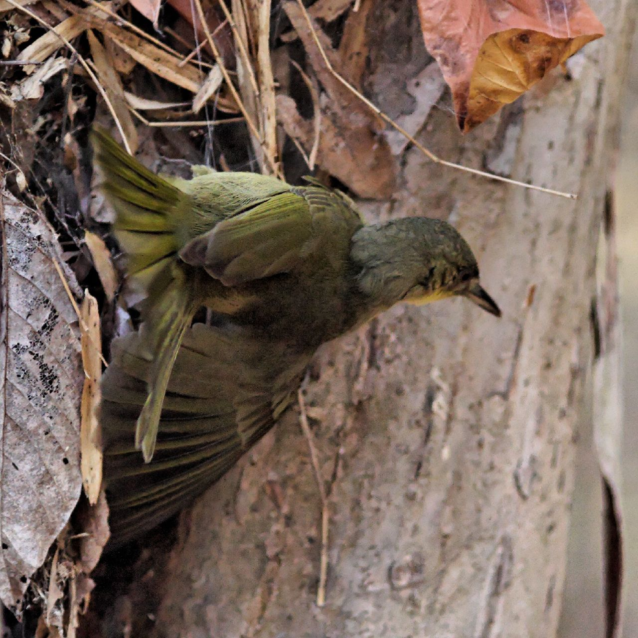 Long-billed Bernieria, Kirindy, Madagascar, 2005.